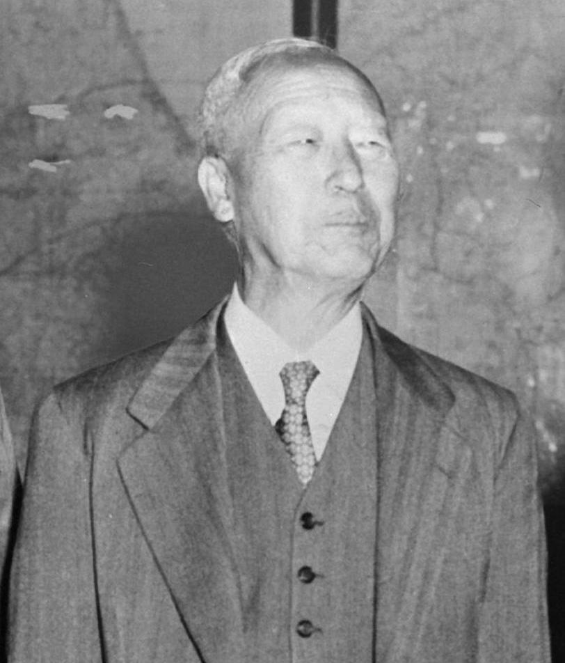 General Matthew B. Ridgeway (right), Commander-in-Chief of the United Nations forces in Korea, conferring with (left to right) Lieutenant General Earle E. Partridge, Commander of the U.S. Fifth Air Force; Lieutenant General James A. Van Fleet, Commander of the U.S. Eighth Army, and Syngman Rhee, President of the Republic of Korea. AIR AND SPACE MUSEUM #: 51-7600-306-PS